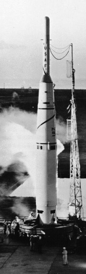 Thor Able I with first Pioneer (Pioneer 0), 17 august 1958. Launch vehicle will explode after 77 sec flight.